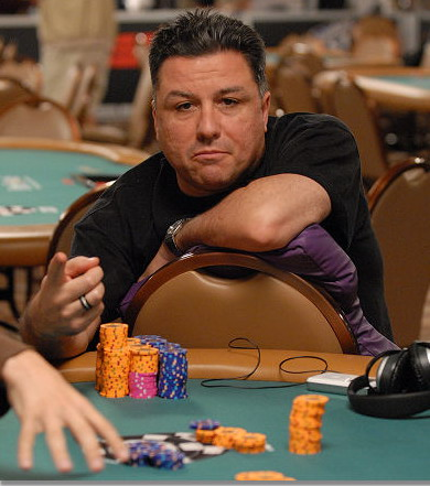 Eli Elezra at the 2007 World Series of Poker - Rio Las Vegas.